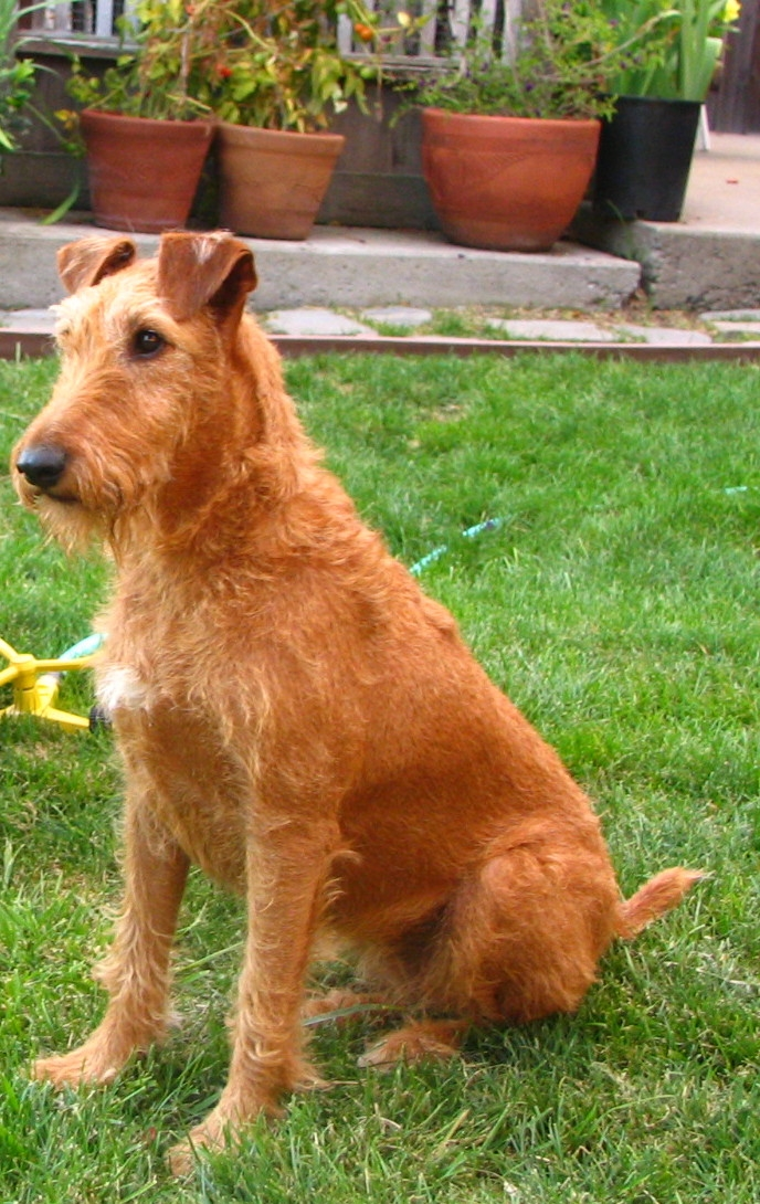 Dan Carmell, digital photo of the author's Irish Terrier, intended to substitute for the rather poor IT photo in the english Wikipedia Irish Terrier article.